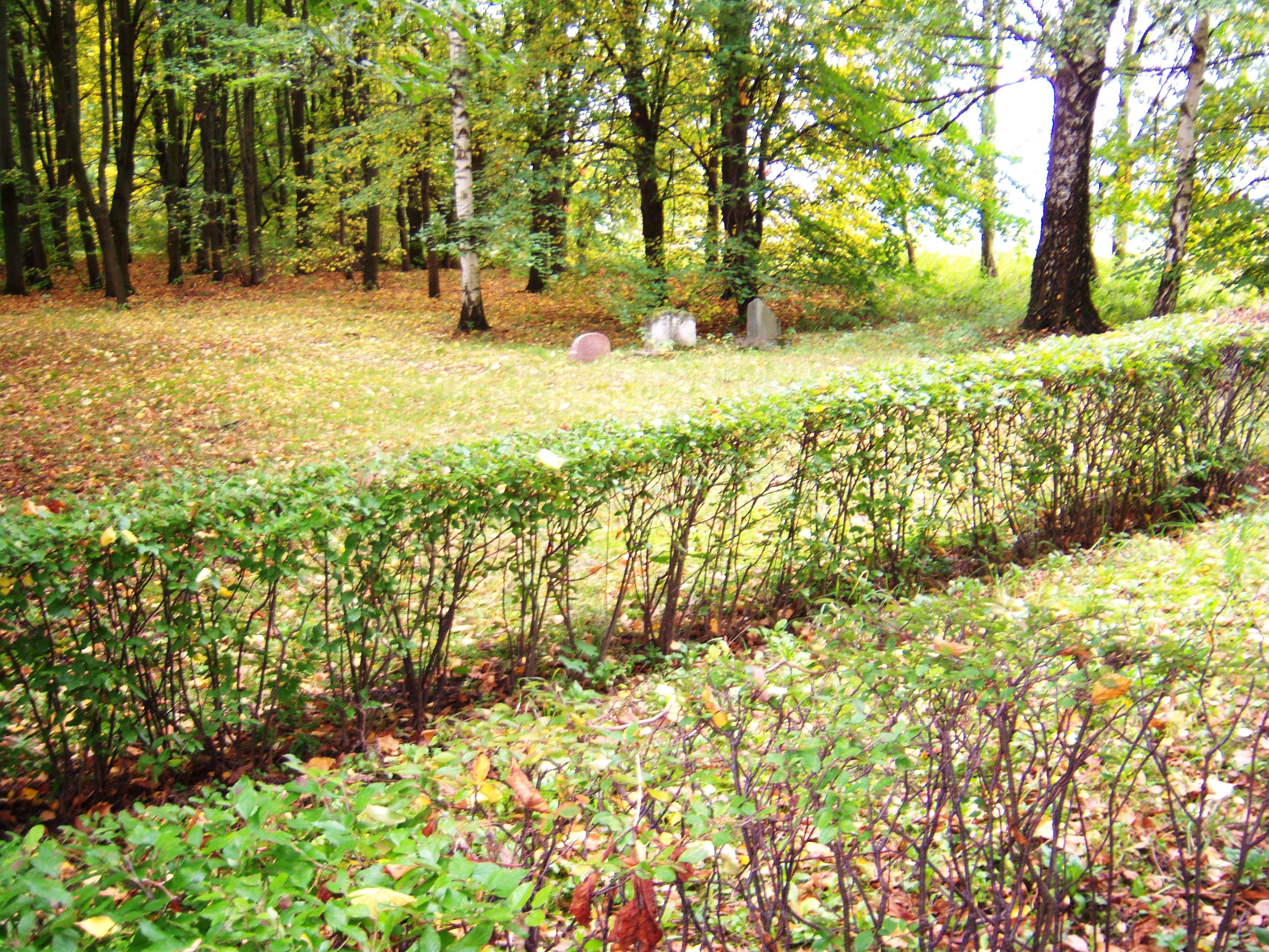 Old Jewish cemetery, Aukštoji Panemunė, Kaunas, Lithuania